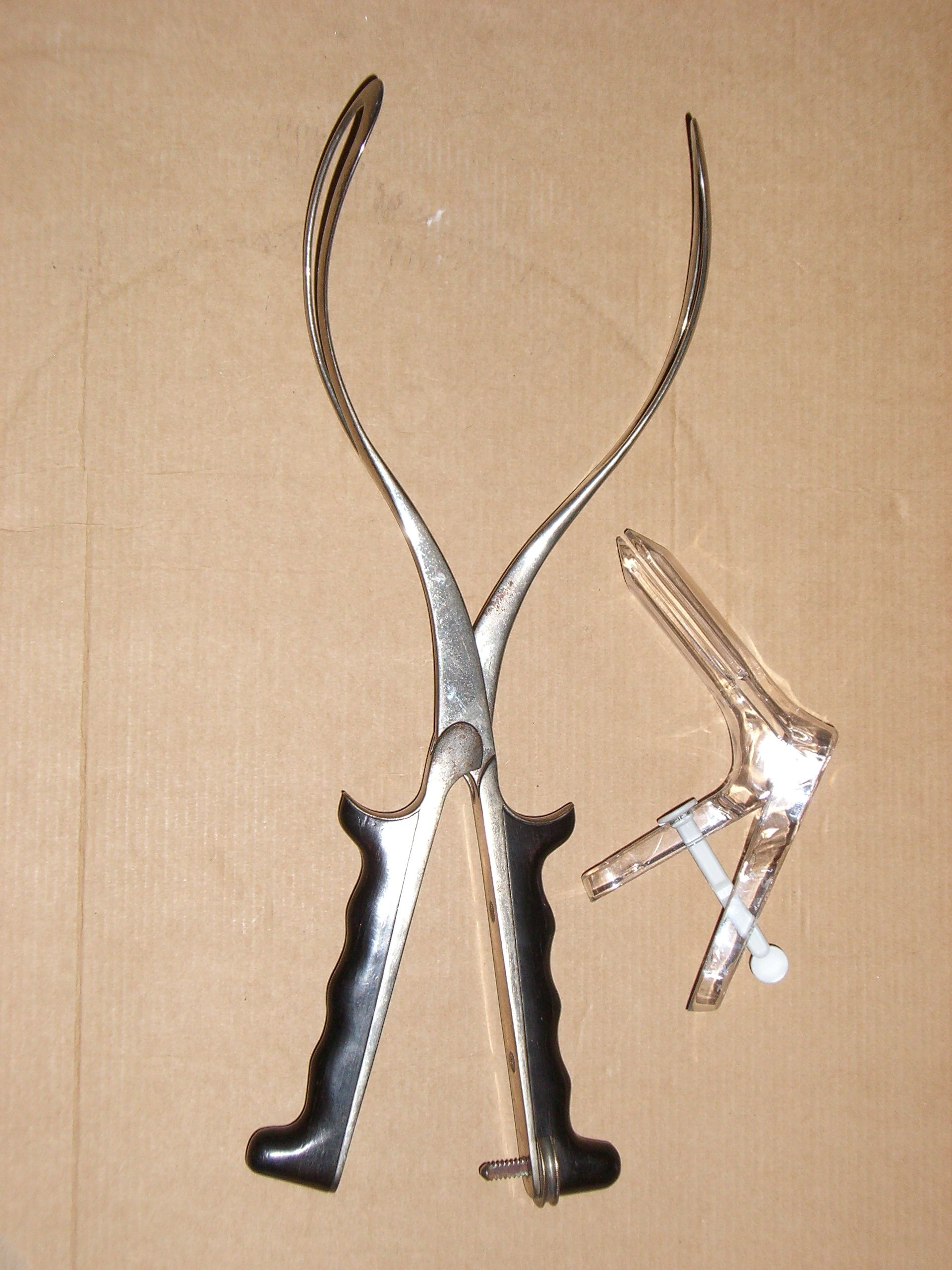 Elliot forceps - USA (1860) and a plastic speculum